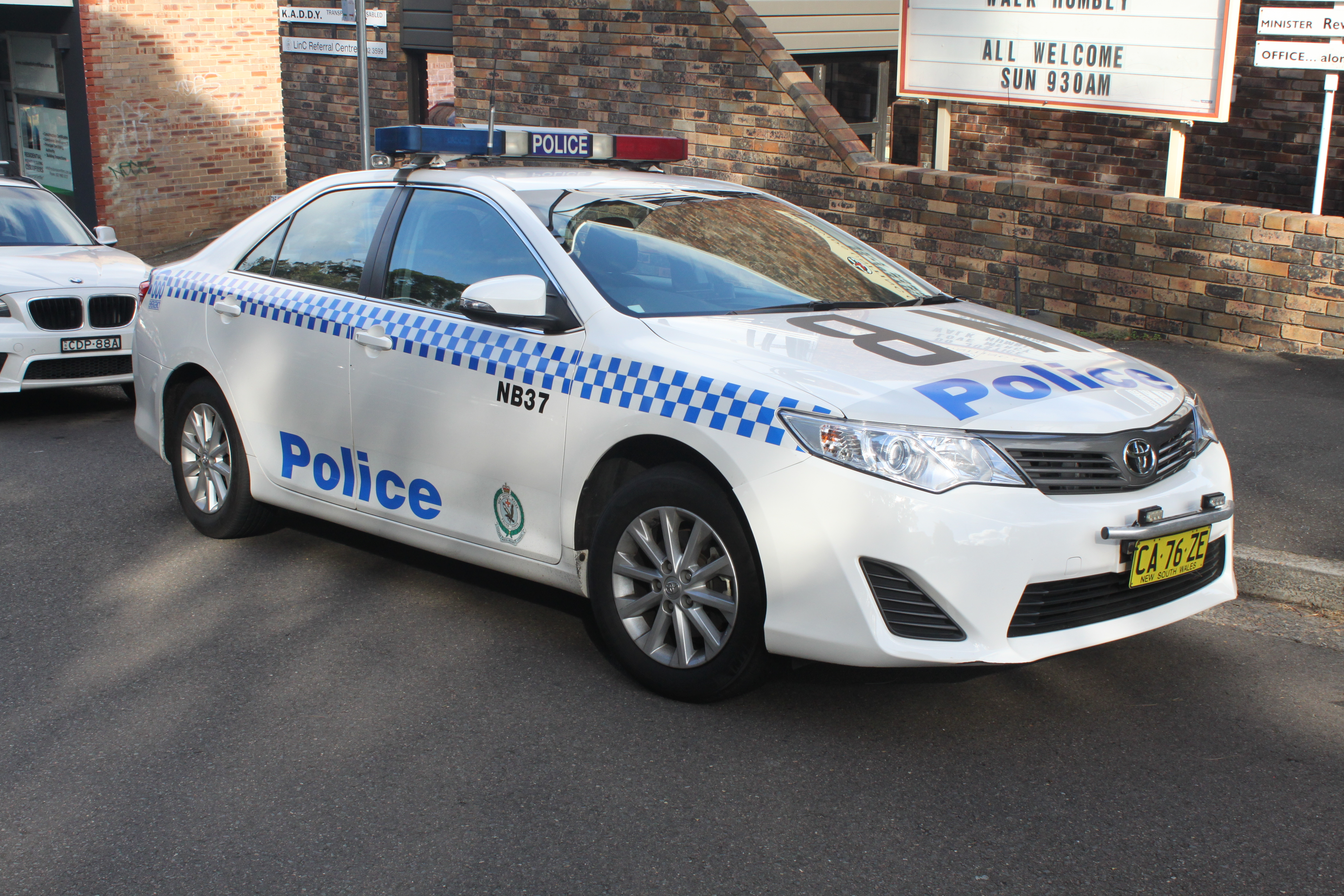 2014 Toyota Camry (ASV50R) Altise sedan, NSW Police Force. Photographed in New South Wales, Australia.